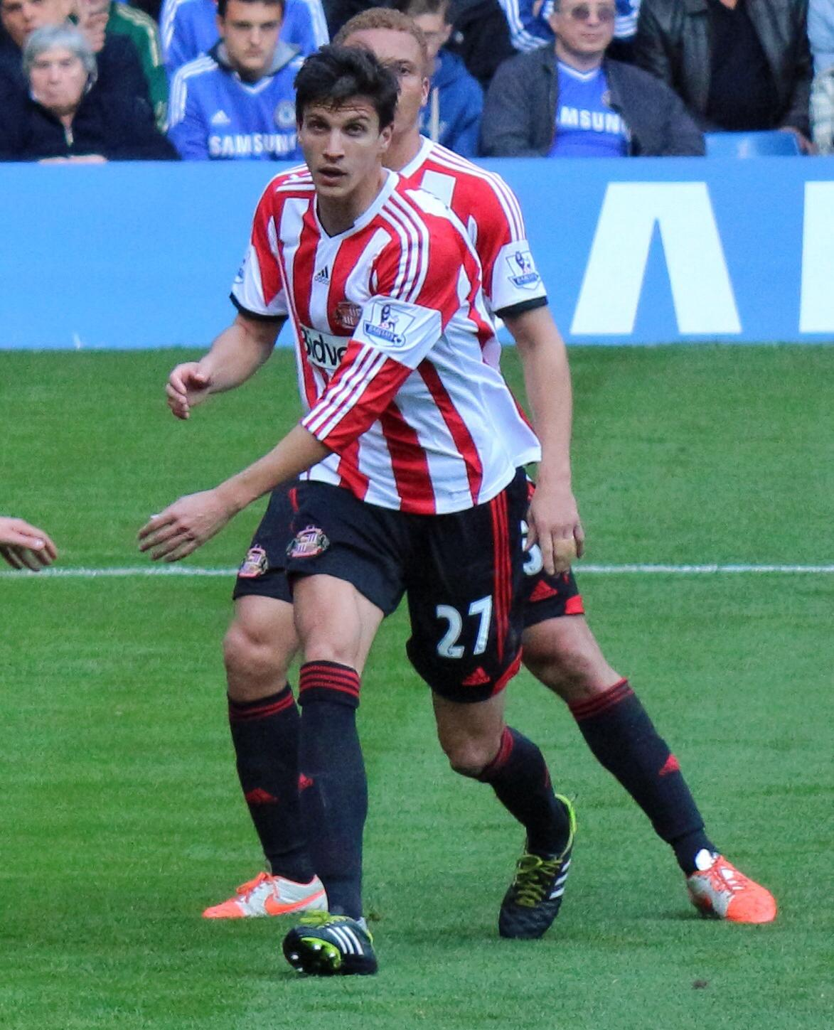 A bad day at the office, where a combination of questionable refereeing decisions and our inability to convert countless chances.